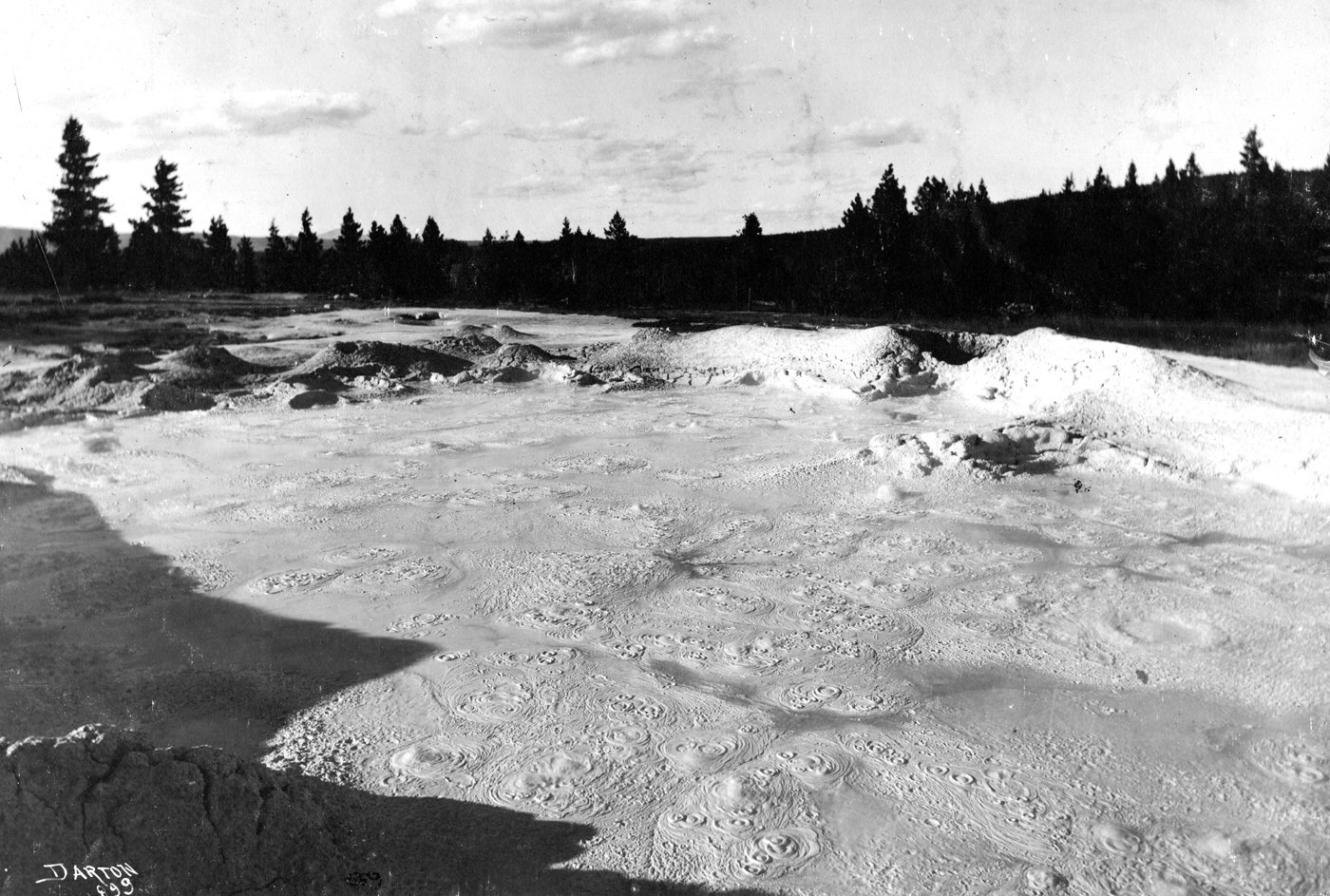 Fountain Paint Pots, Lower Geyser Basin, Yellowstone National Park, 1899